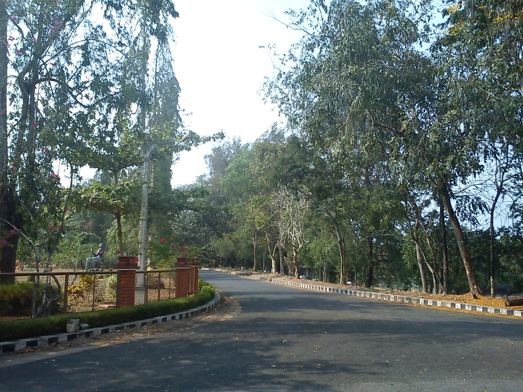 mc tvm